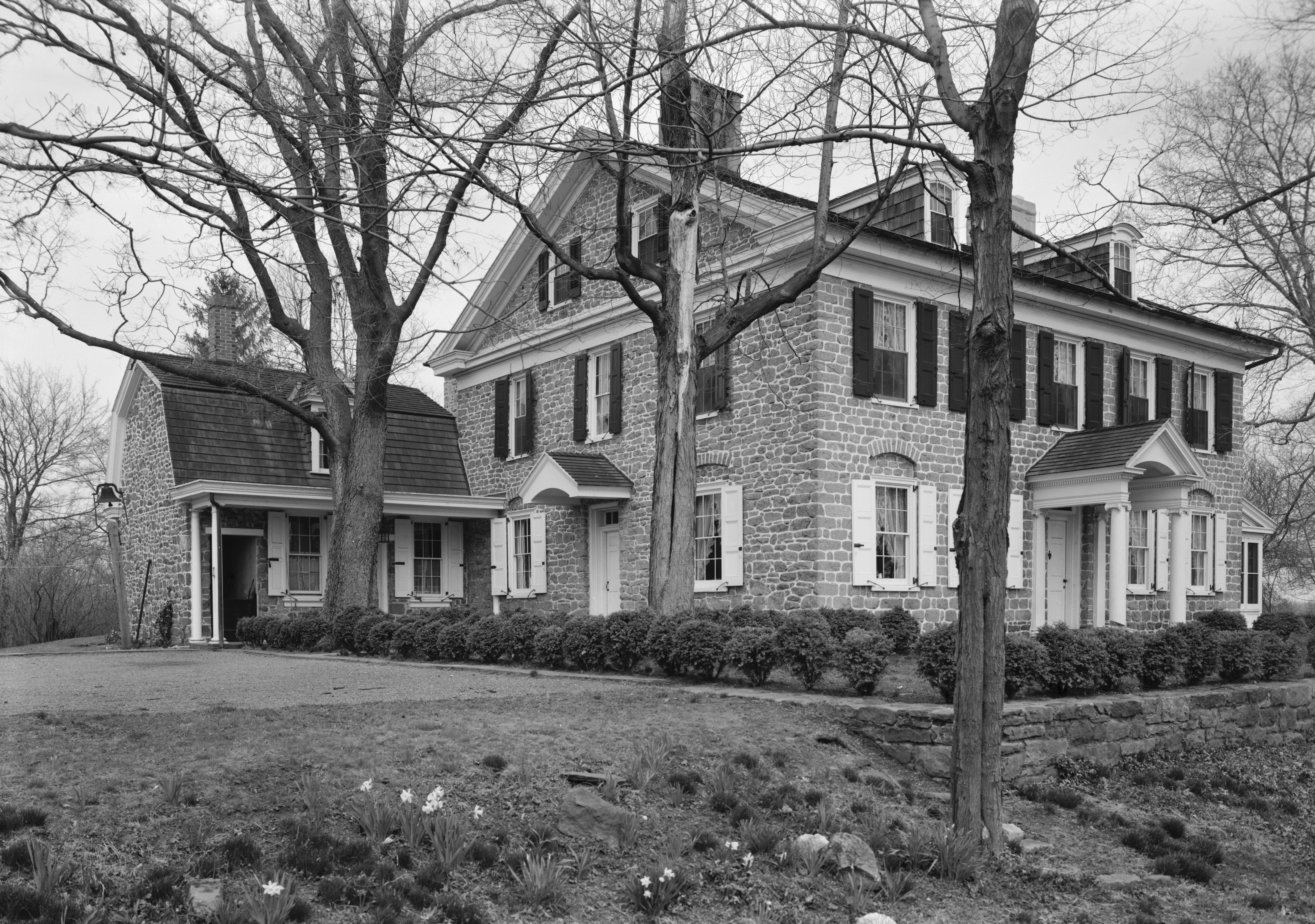 Moore Hall — aka: William Moore House. Located just east of Phoenixville on Valley Forge Road , in Schuylkill Township, Chester County, Pennsylvania. 0.2 miles east of Whitehorse Road and a bit north toward the RR tracks on Valley Forge Road — less than 10 miles west of Valley Forge. Original construction from 1750. On the NRHP since November 19, 1974. A Historic American Buildings Survey—HABS image.